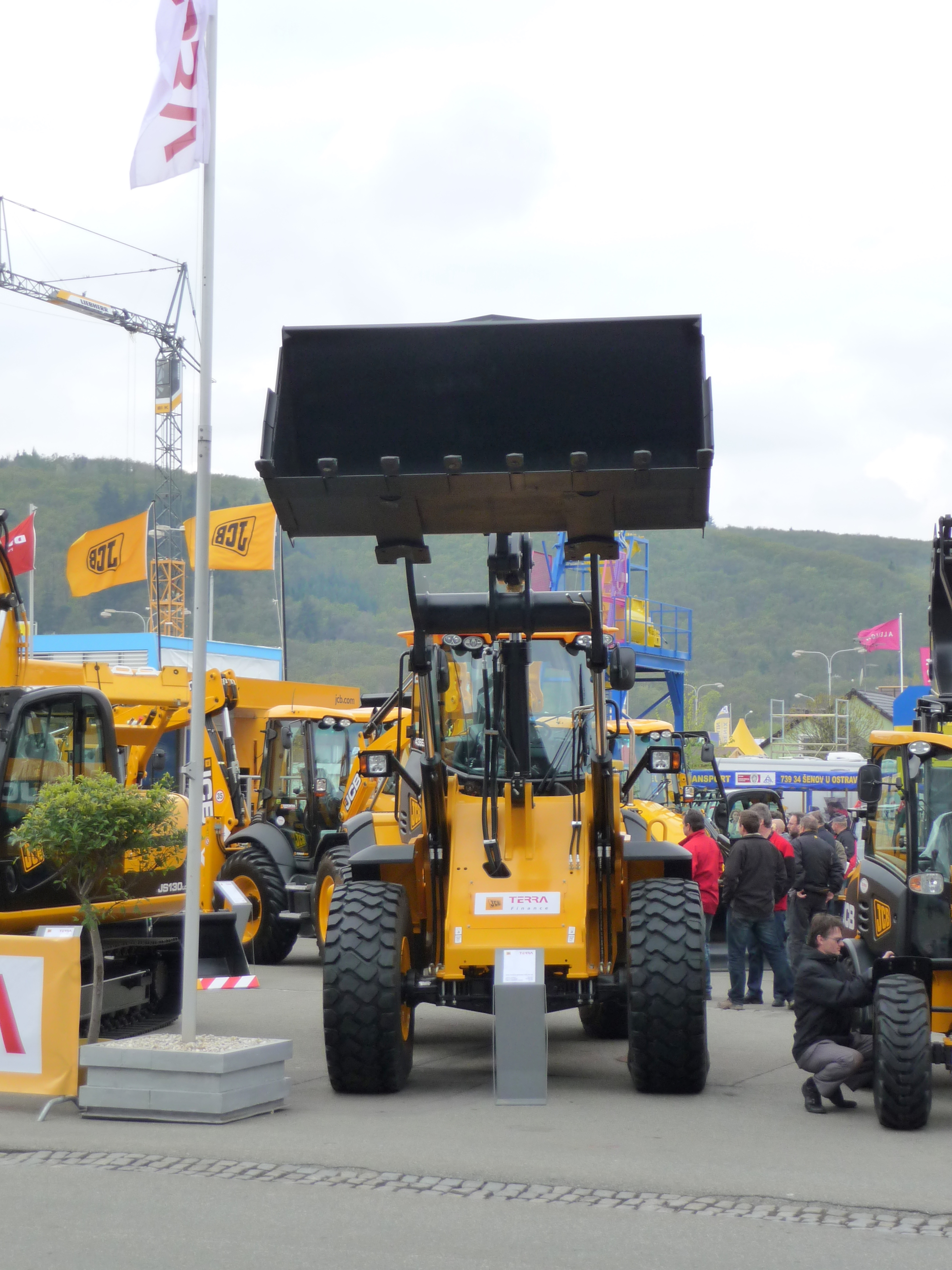 Loader JCB, Building Fairs Brno 2011 -10-5-3-2◄►+2+3+5+10